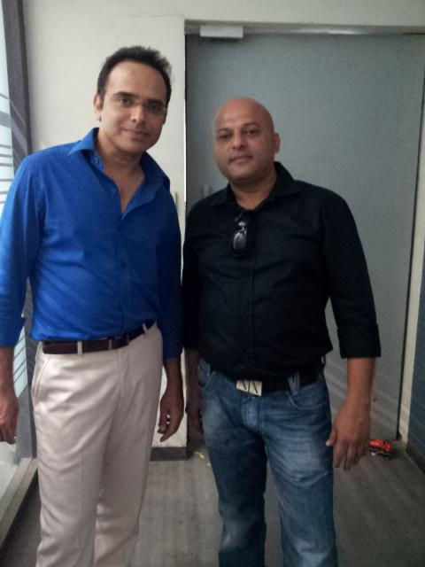 Harsh Chhaya on the set of ONCE MORE STUDIOS with Deepak Bhanushali